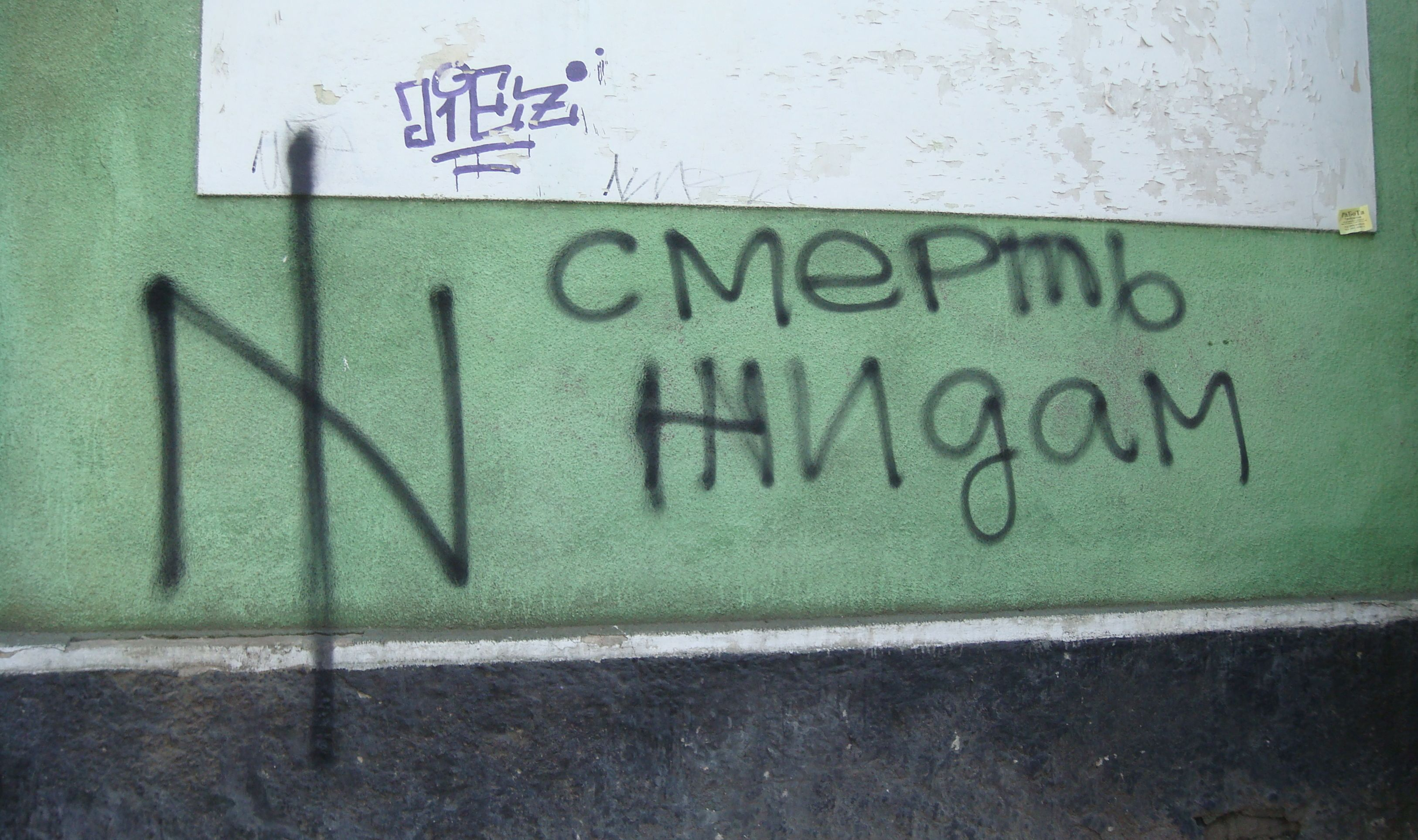 Antisemithic graffiti in Odessa. April 2014. Photo made on Osipova street, one block off Synagogue. Slogan saying (in Ukrainian): "Death to Jews"